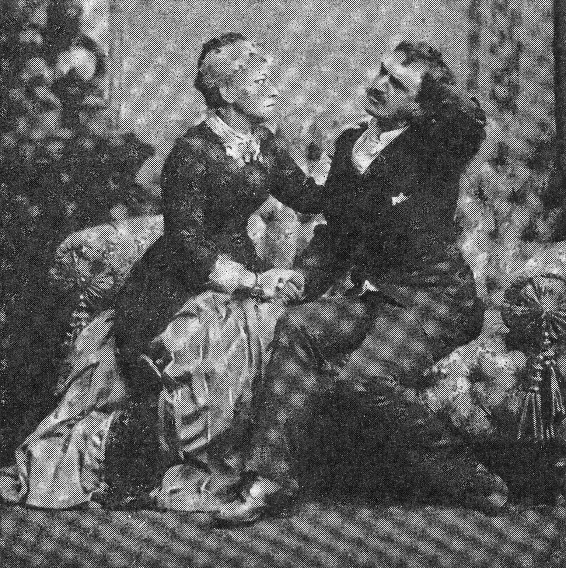 Hedvig Winterhjelm and August Lindberg in Ibsen's play Ghosts.